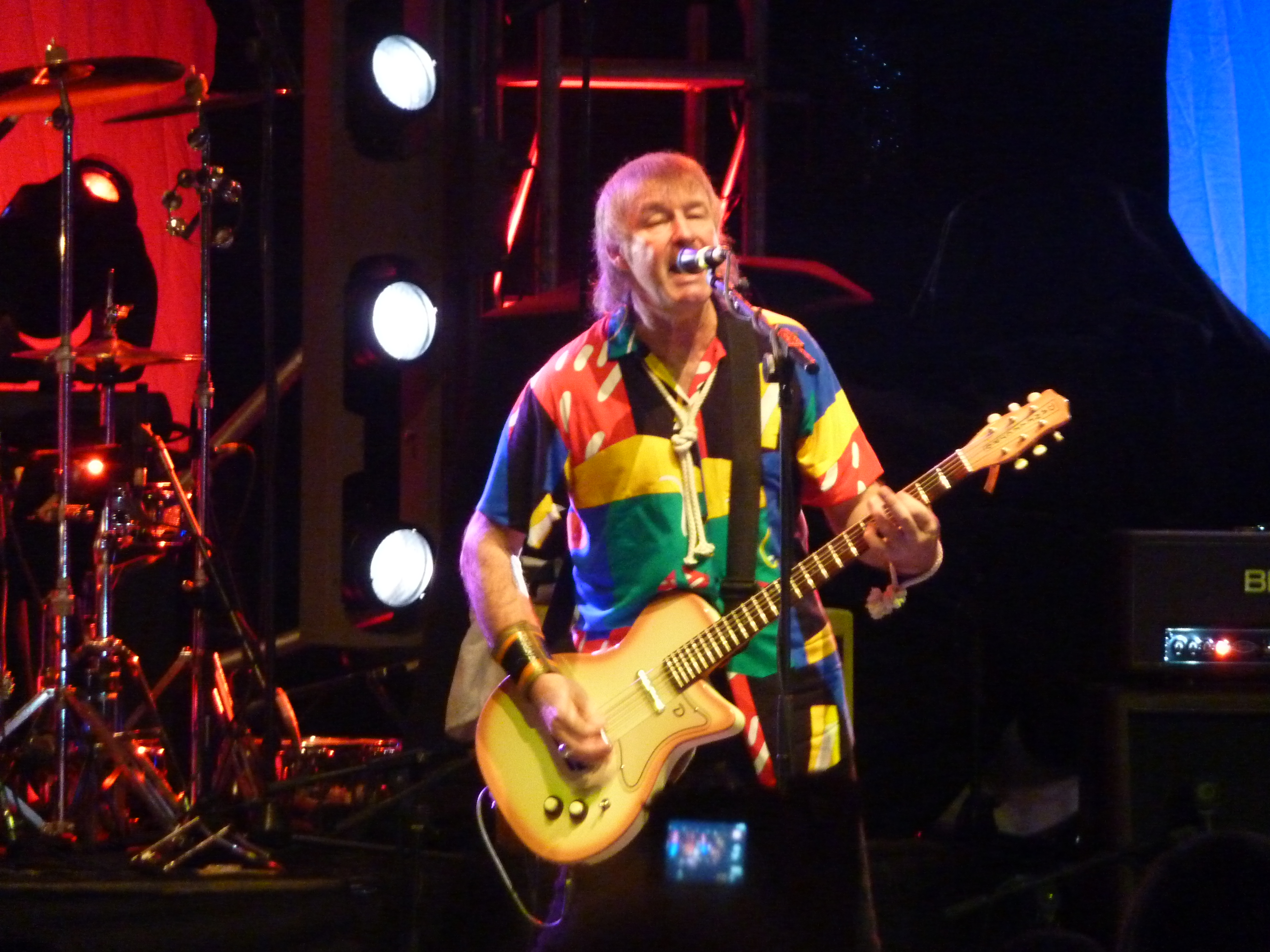 Mott the Hoople's Overend Watts, reunion gig, Hammersmith Apollo, London, October 2009